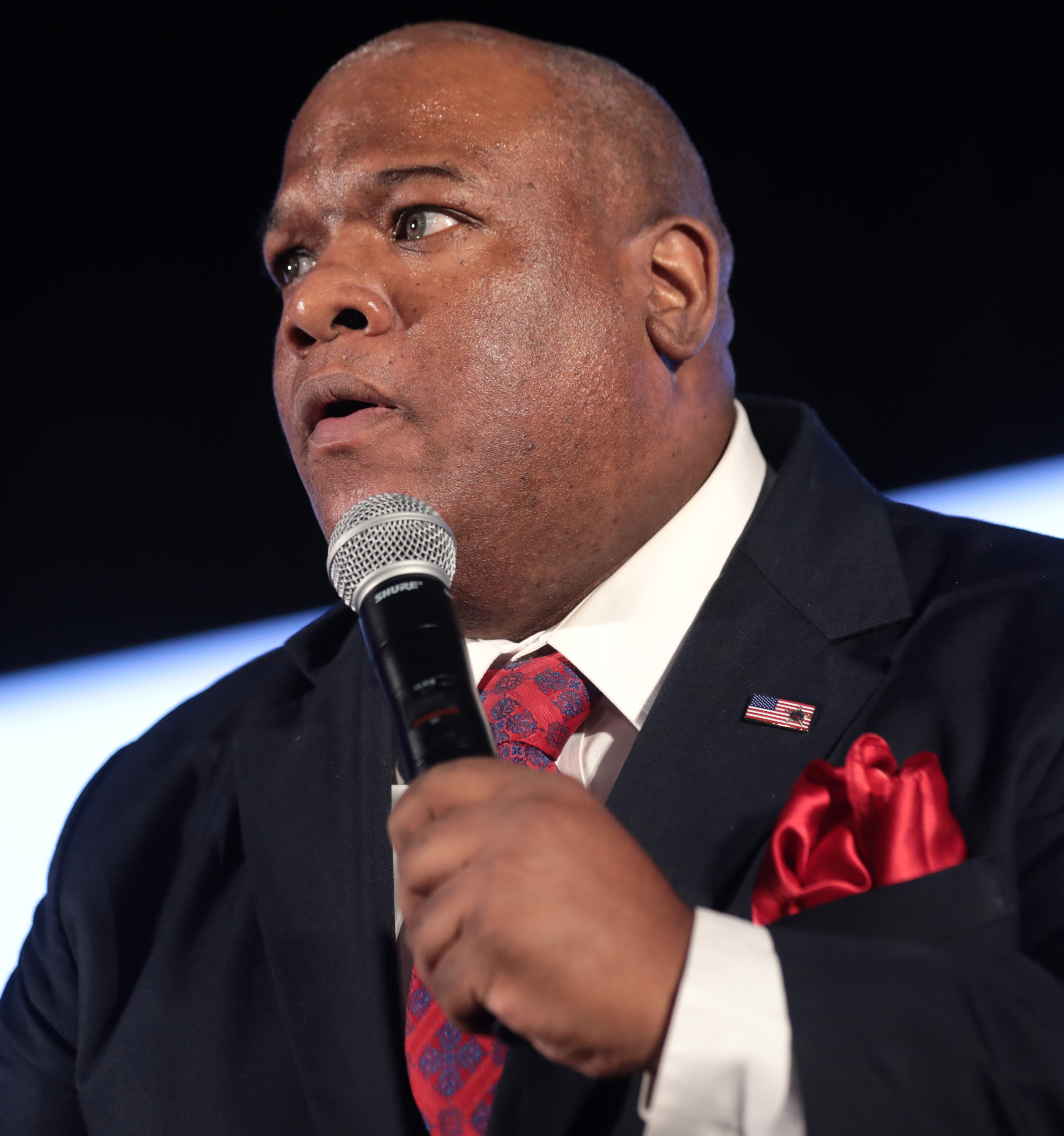 Mark Burns speaking with attendees at the 2019 Teen Student Action Summit hosted by Turning Point USA at the Marriott Marquis in Washington, D.C.